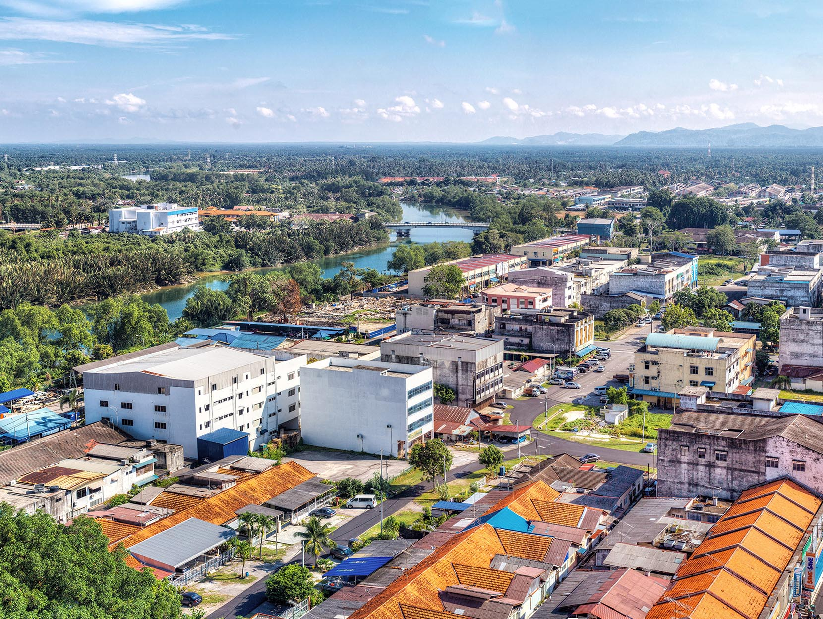 Batu Pahat River